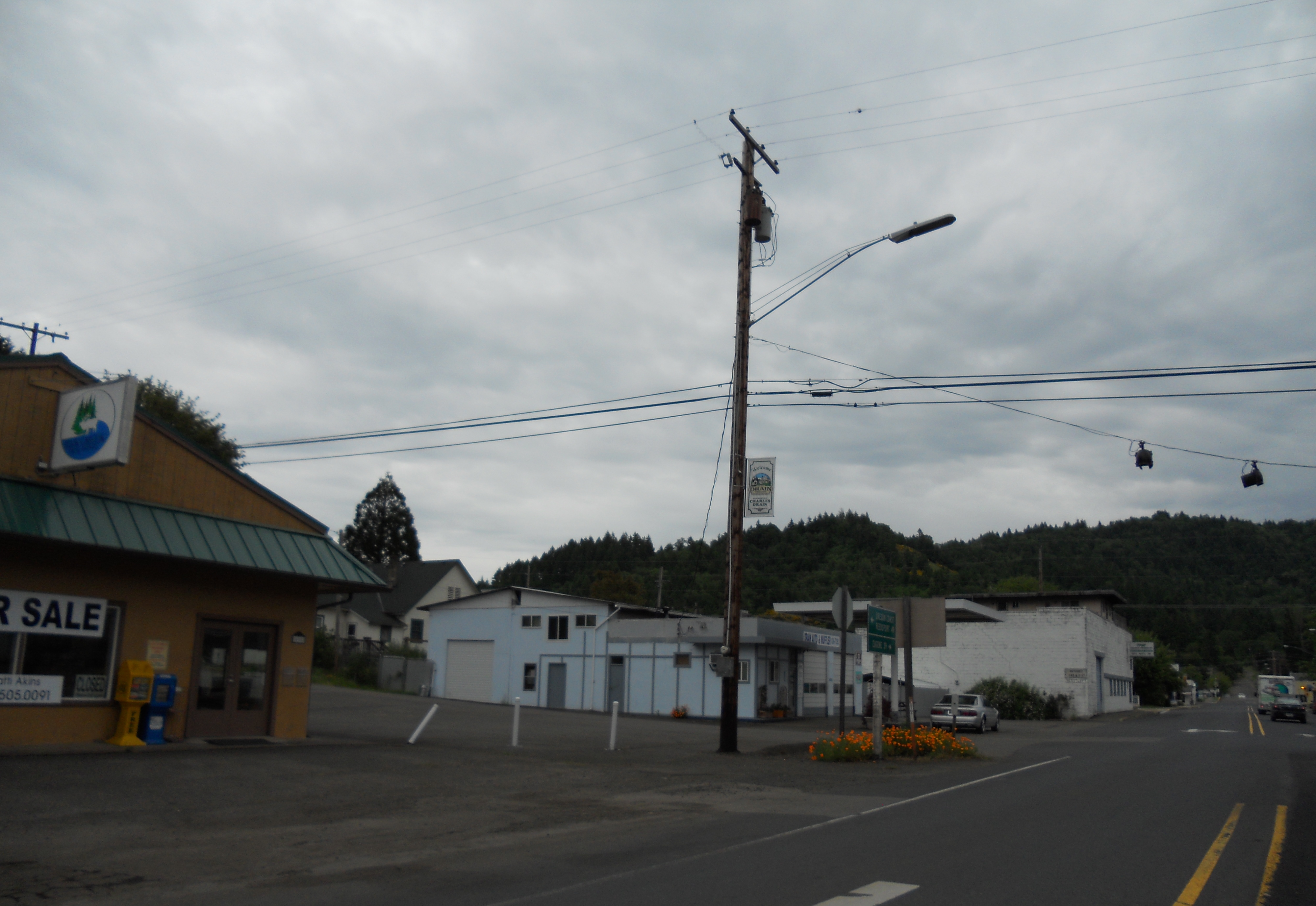 Drain, Oregon, a city in Douglas County